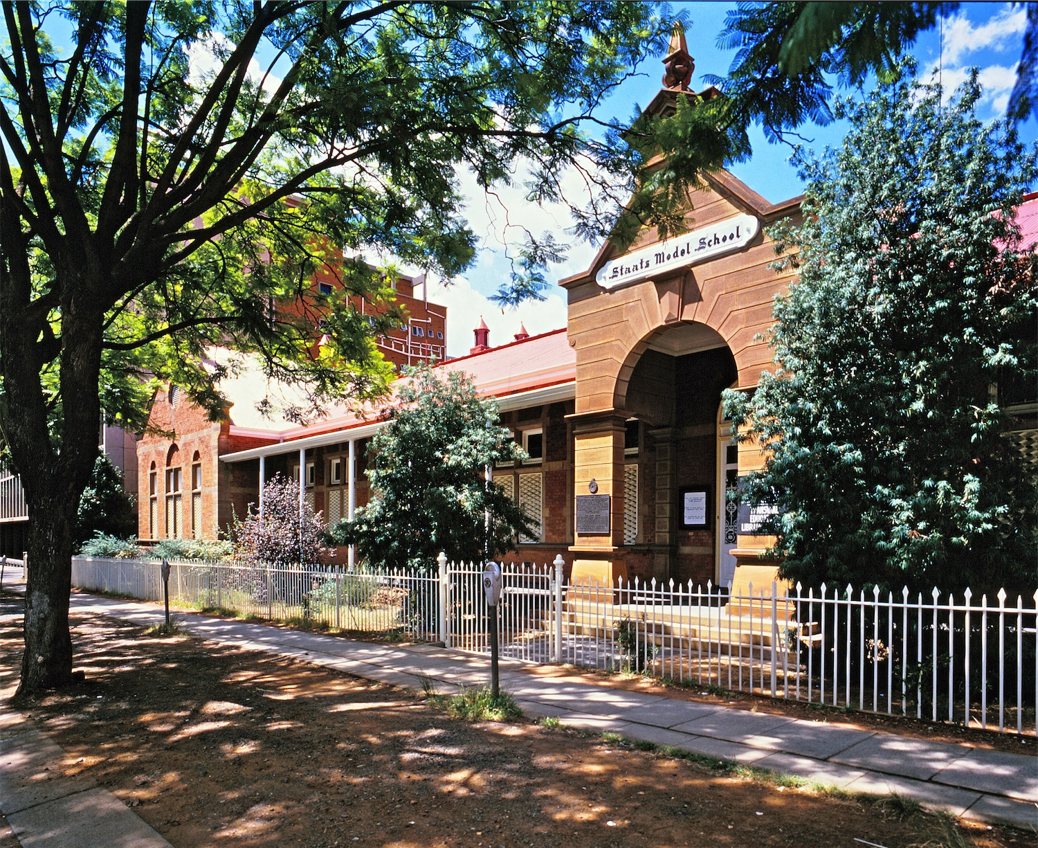 This media shows a South African Protected Site with SAHRA file reference 9/2/258/0008.